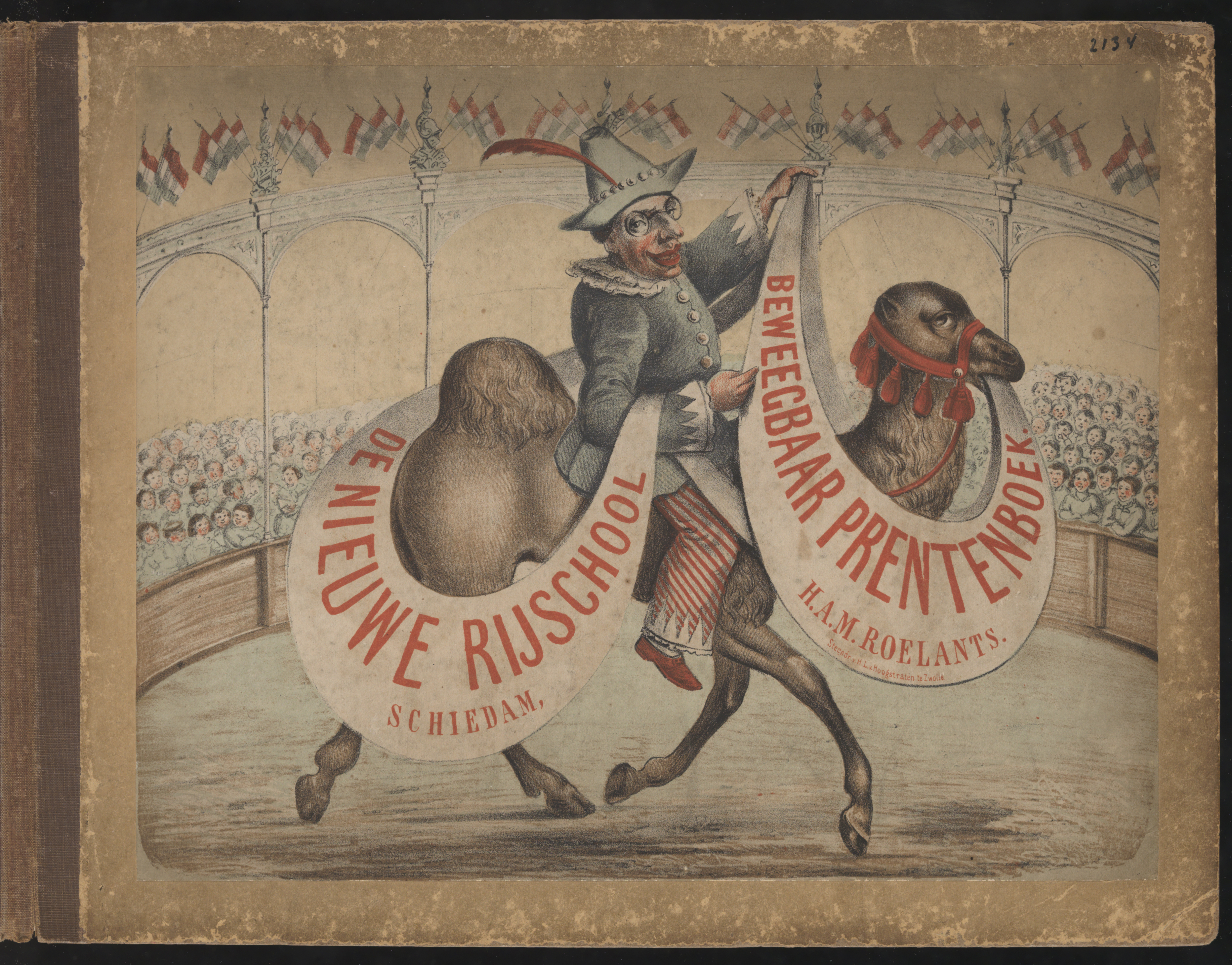 Front cover of De nieuwe rijschool (the new riding school) from 1856